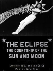 Screenshot from movie "L'éclipse du soleil en pleine lune". France, 1907 year.